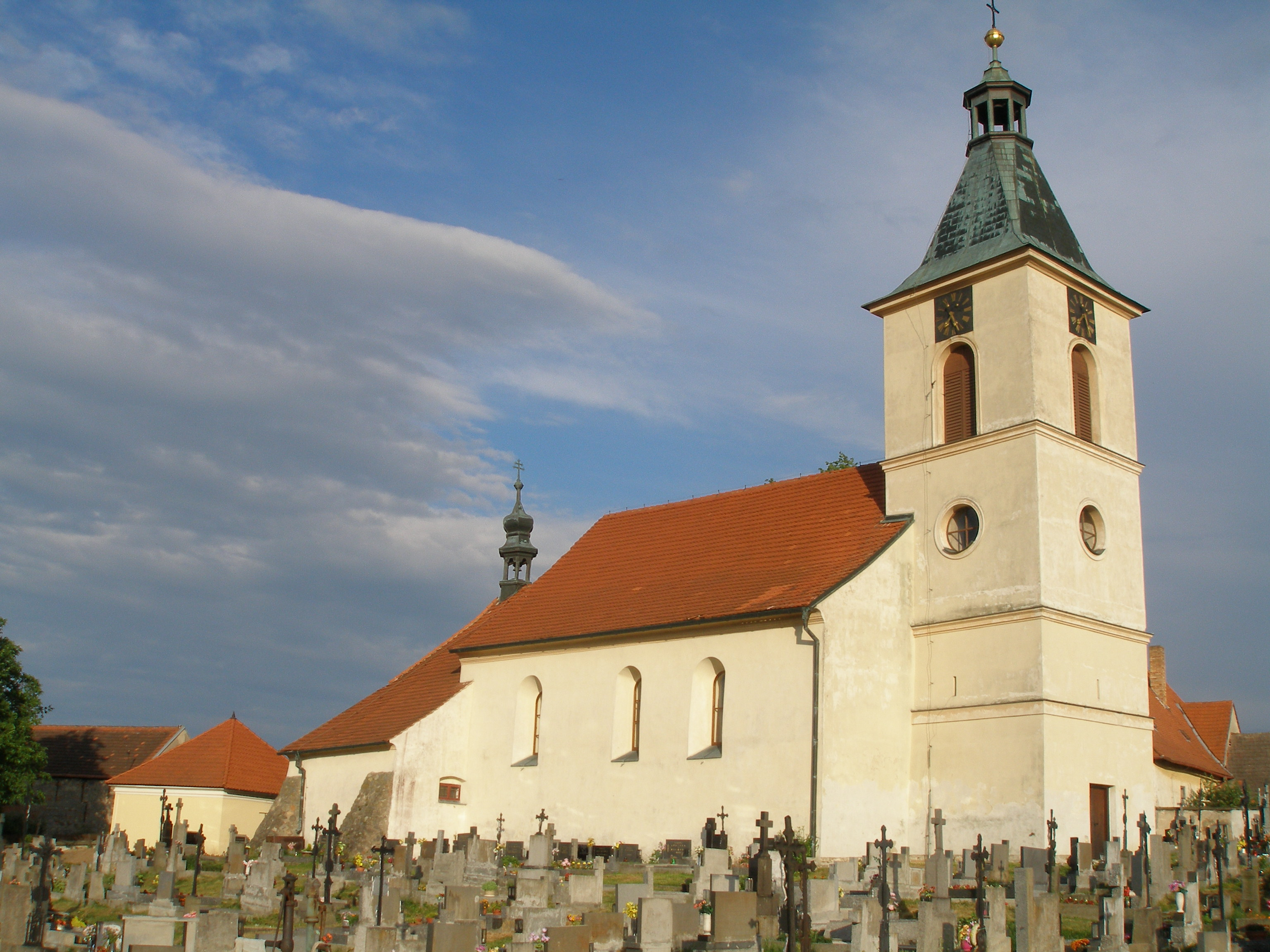 All Saints church in Kovářov (Písek District)